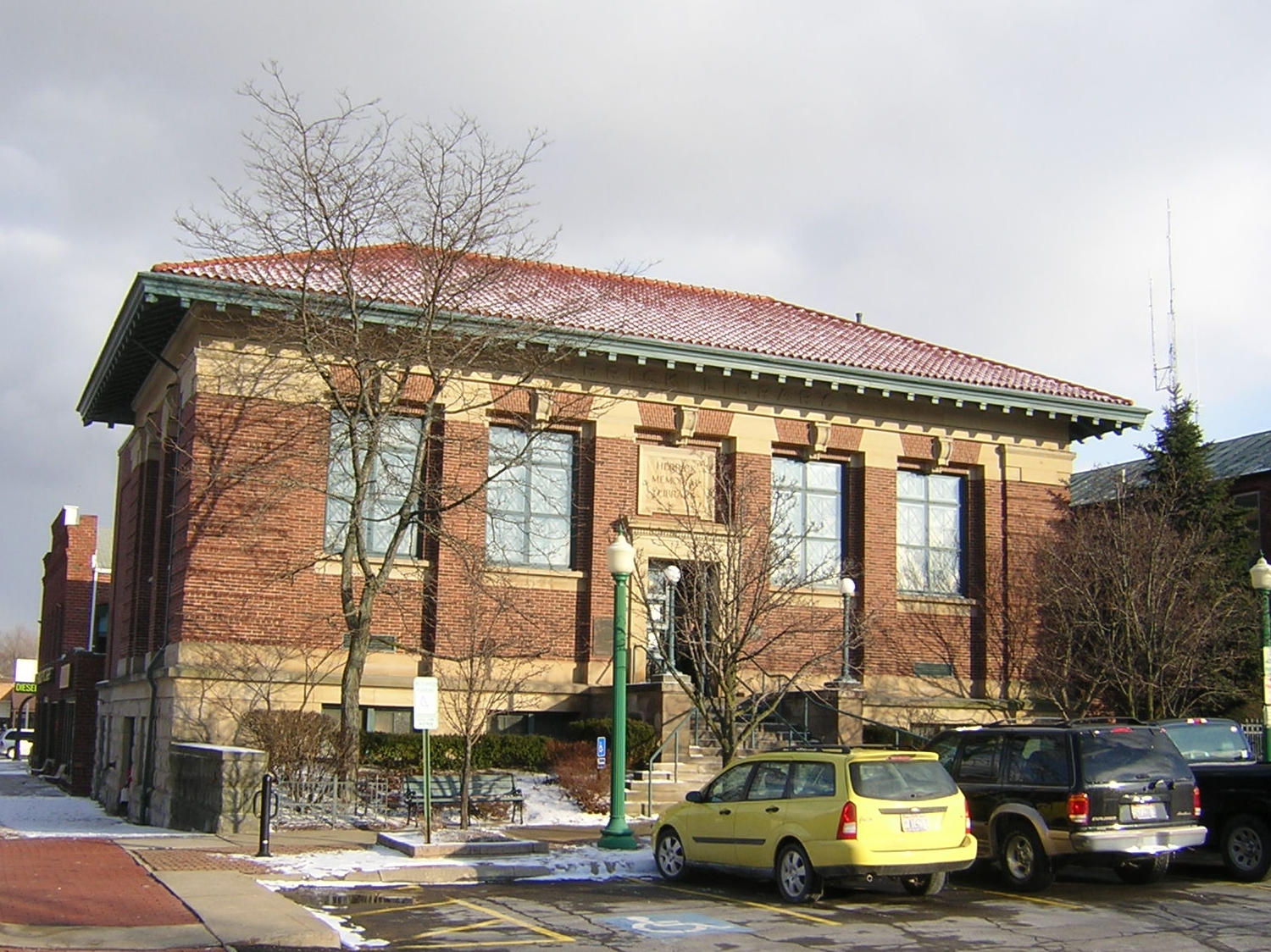 A scene from Wellington, a village in Lorain County, Ohio, United States. This is the Herrick Memorial Library.